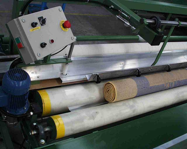 I made this image myself from a digital camera which I brought into a local rug-production factory. Machine used to cut and re-roll carpet lengths. Please note that this is a picture of an automatic rolling and packing line for area rugs , not a machine that makes rugs.